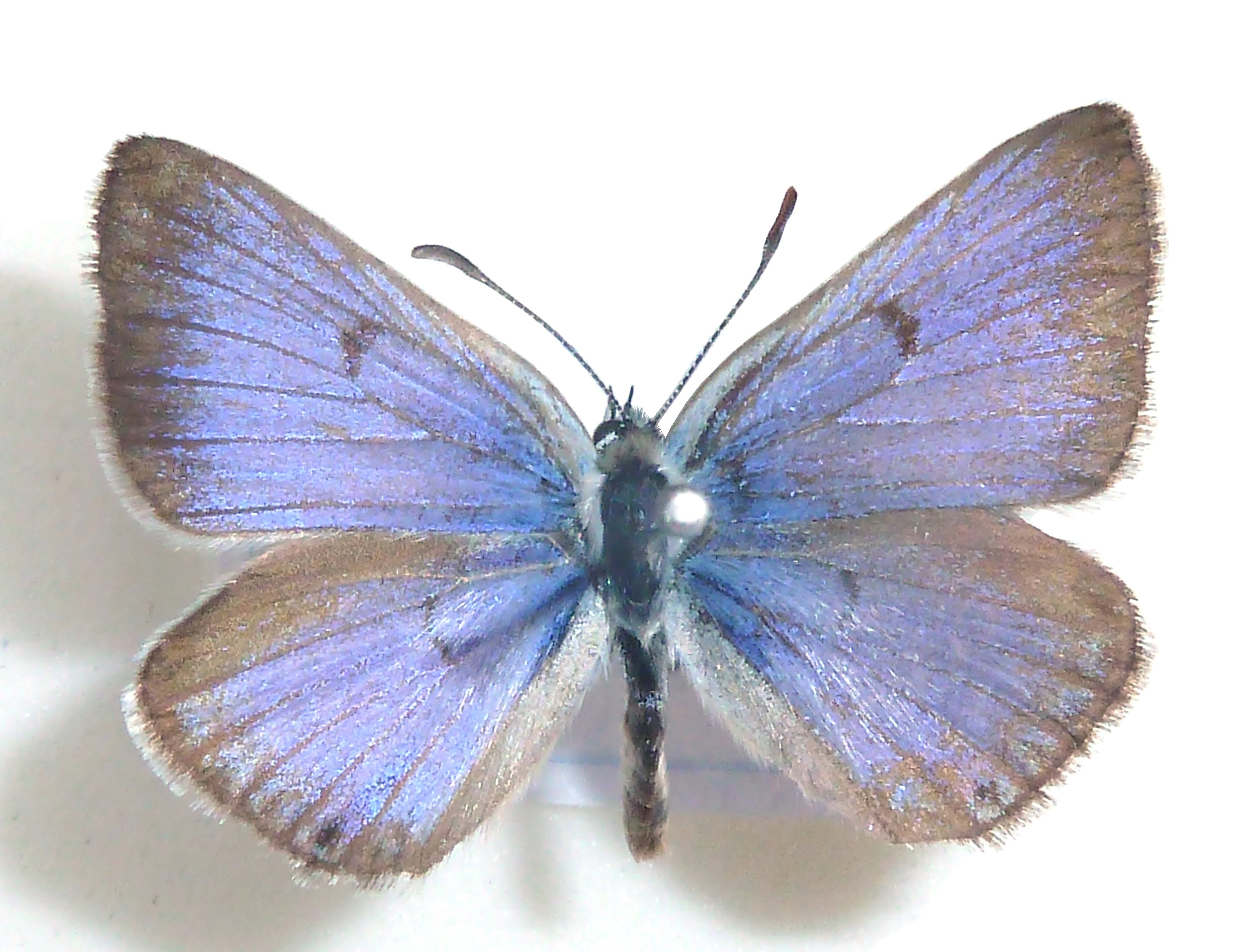 Potchefstroom blue collected by J. Dobson